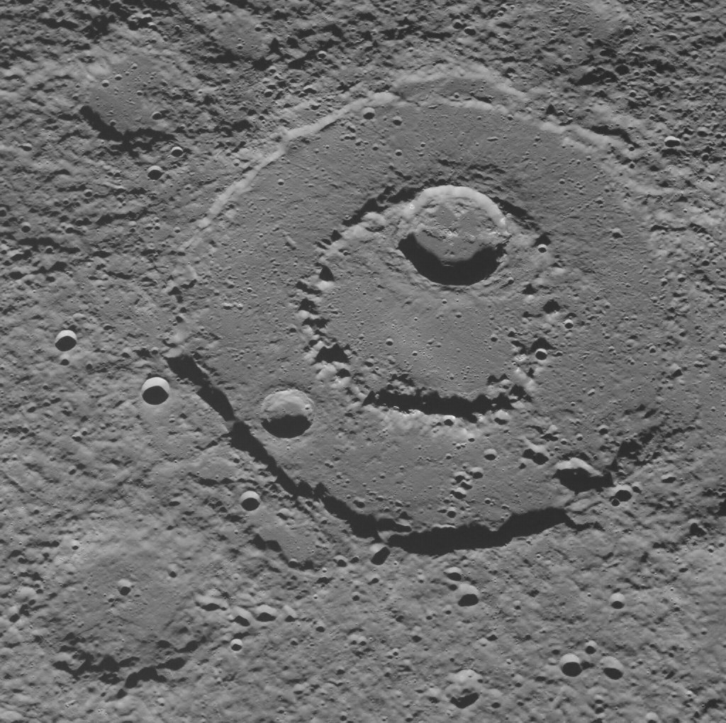 Oblique view of Aksakov crater on Mercury. MESSENGER Wide Angle Camera image. Approximate north is to the right. Emission Angle: 20.6 Incidence Angle: 80.0 Latitude: 34.1 Longitude: 281.6 Phase Angle: 59.4